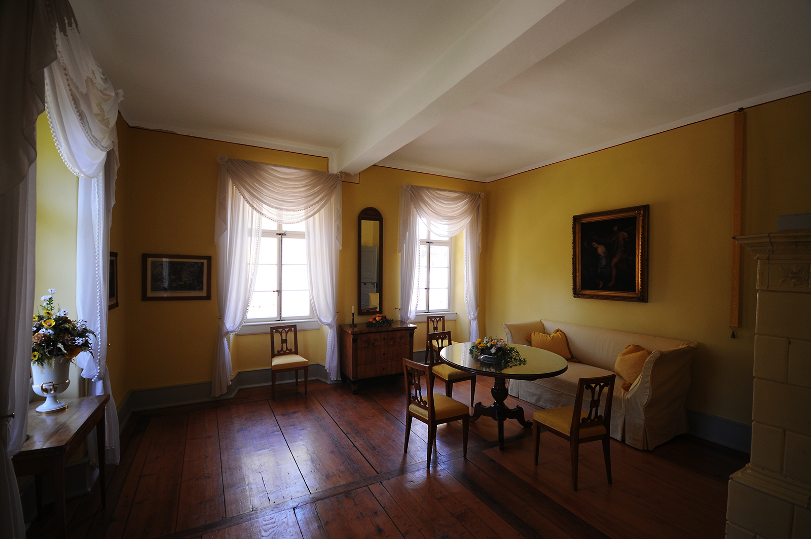 interior fremdenbau, fuerstenlager